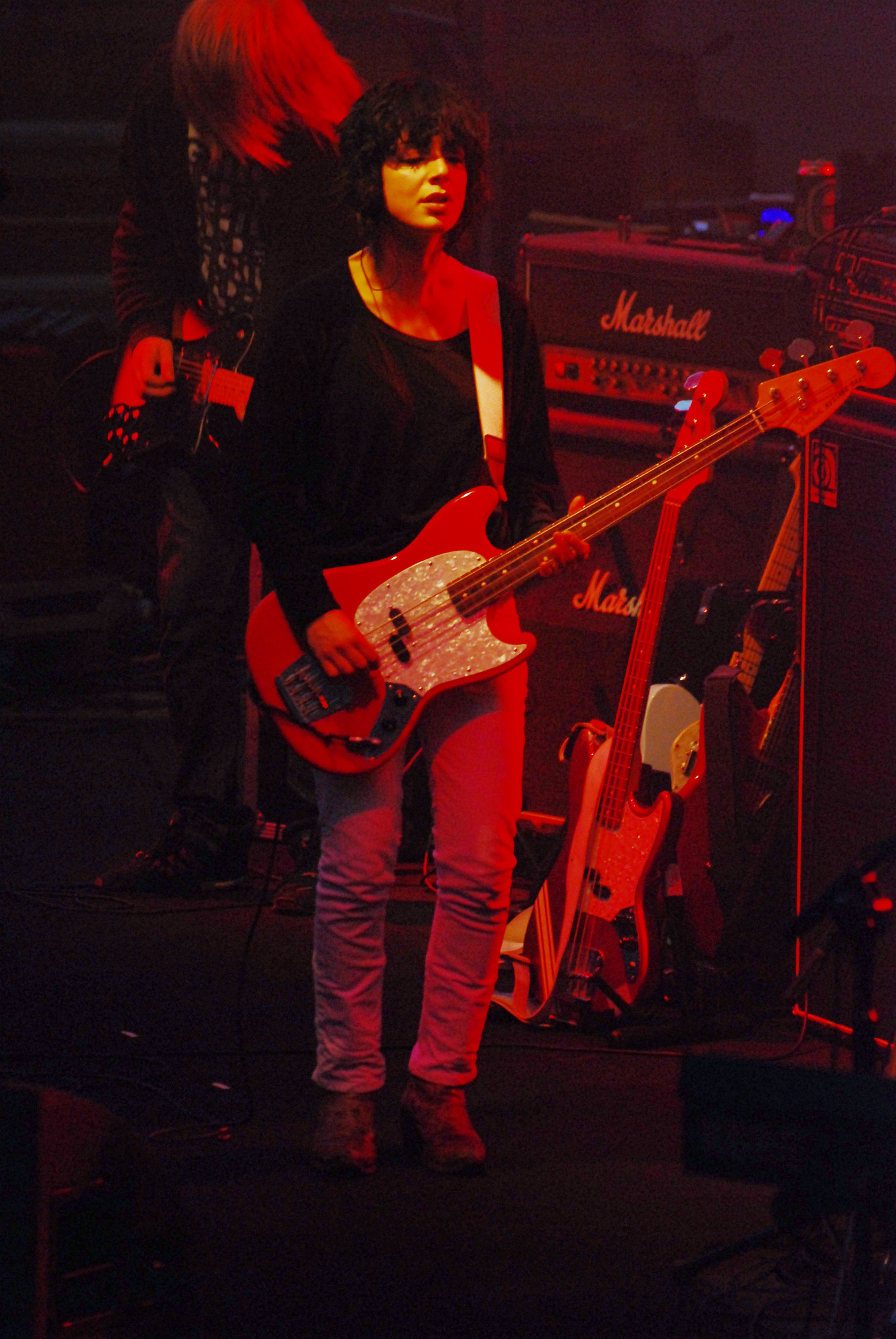 Chloe Alper from Pure Reason Revolution during concert in TS Wisła in Kraków To zdjęcie powstało dzięki współpracy z Rock-Servis